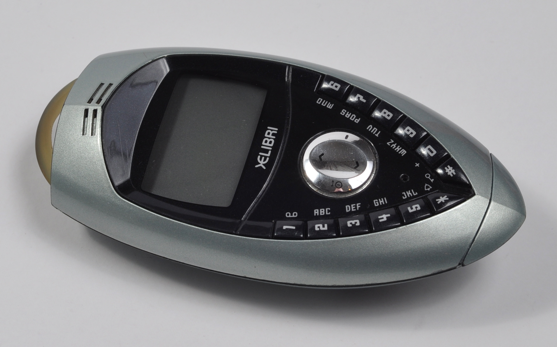 Xelibri 4 Mobile Phone